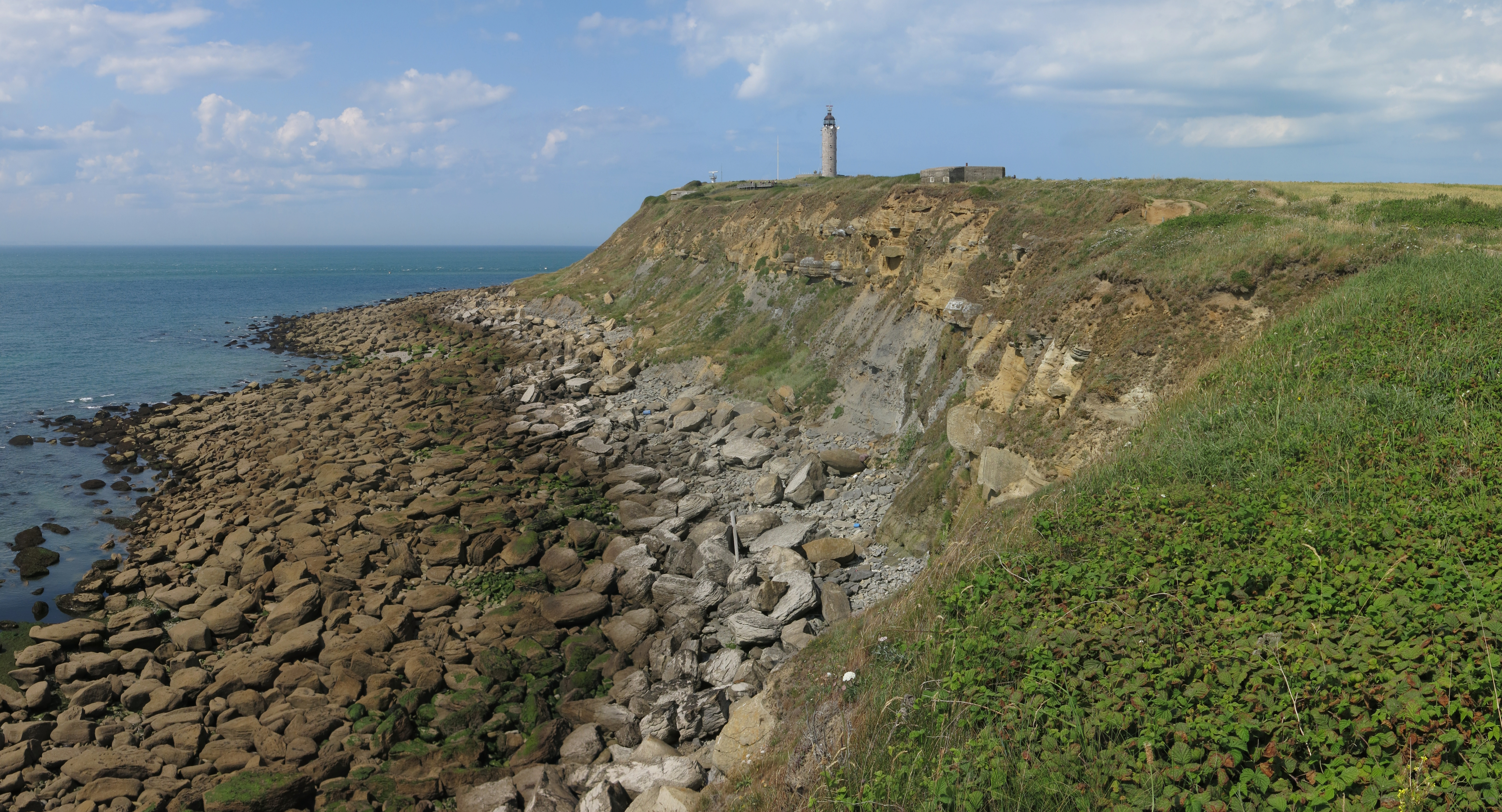 Cap Gris-Nez, west side at low tide